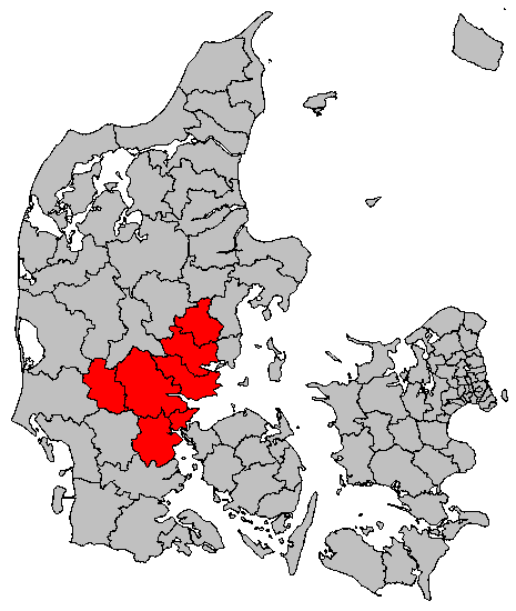 South East Jutland Denmark